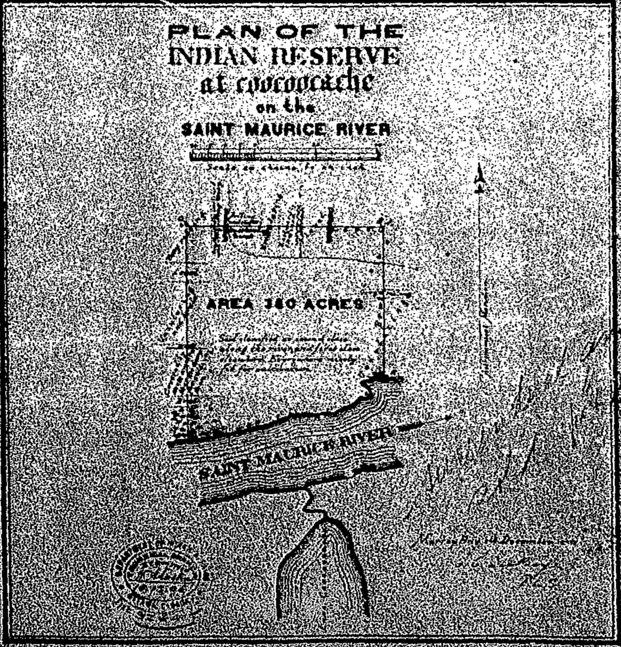 Plan of the Indian Reserve at Coocoocache (now Coucoucache Indian Reserve No. 24) on the Saint Maurice River from December 4, 1895.